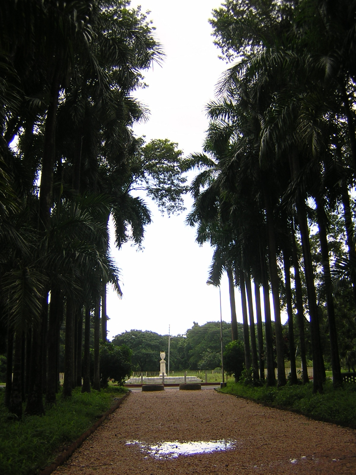 This is a path in the Kolkata botanical garden. A left turn from the circle ahead will take you to the famous banyan tree.